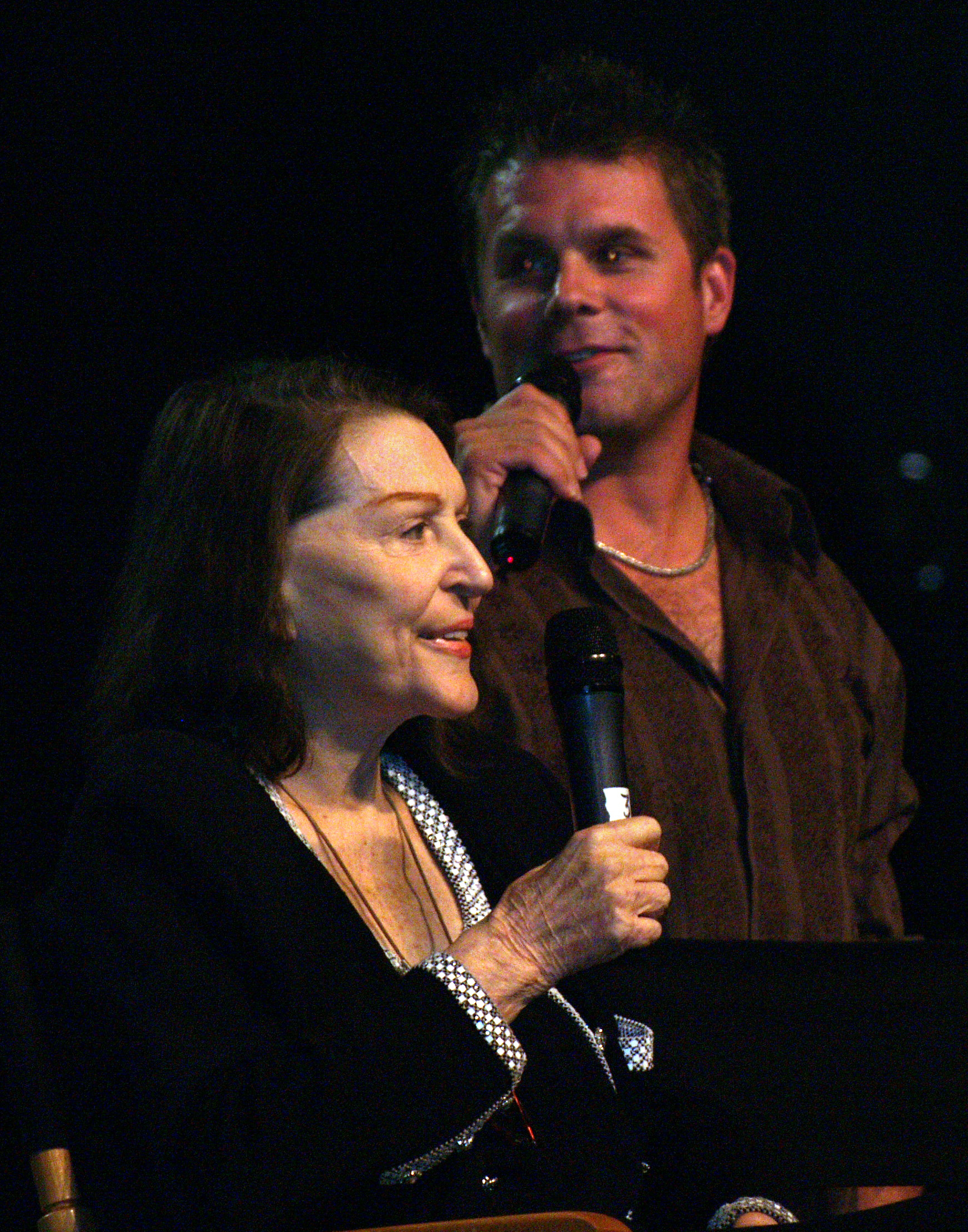 Rod and Majel Roddenberry (aka Majel Barrett) at the Star Trek Convention, Las Vegas